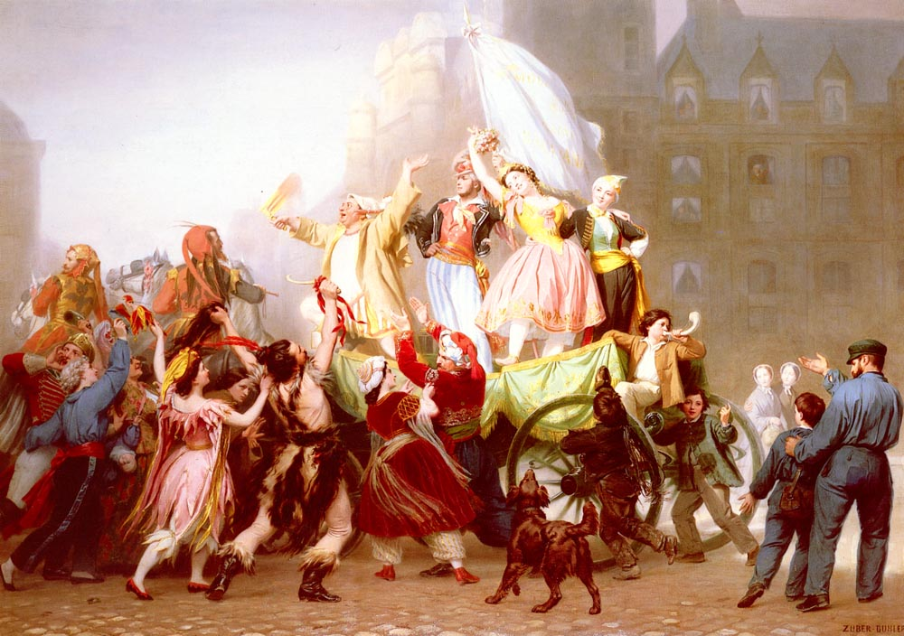 Fritz Zuber-Buhler's art